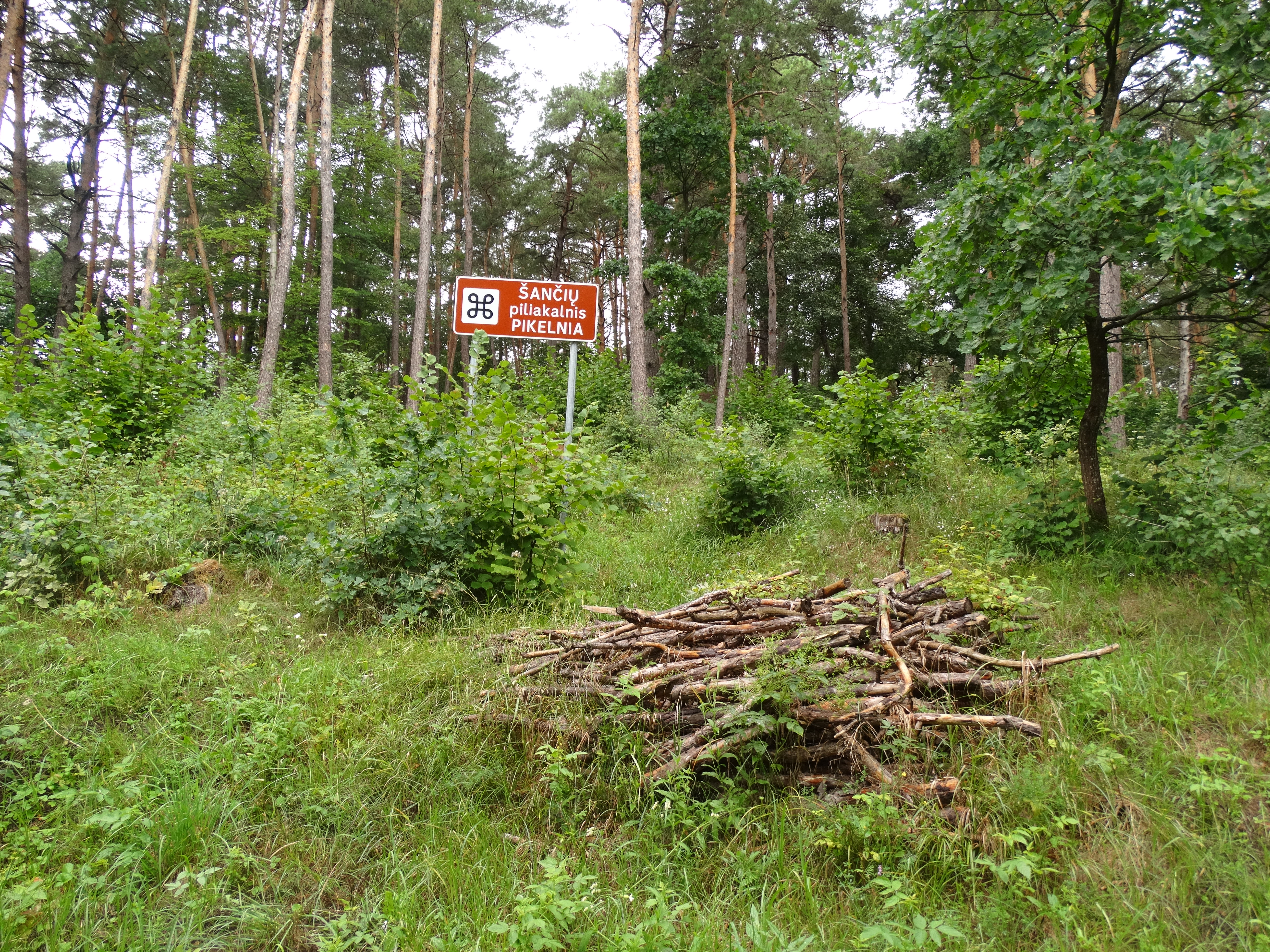 Šančiai hillfort, Kaunas district, Lithuania